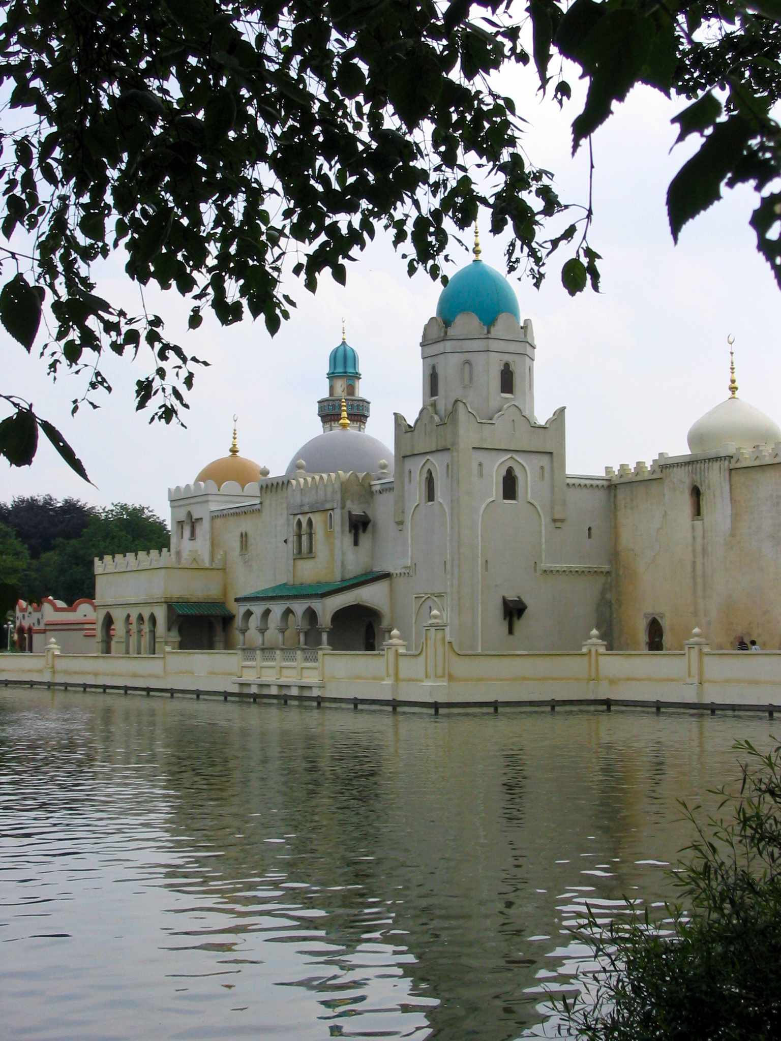 Darkride "Fata Morgana" in Efteling, Netherlands